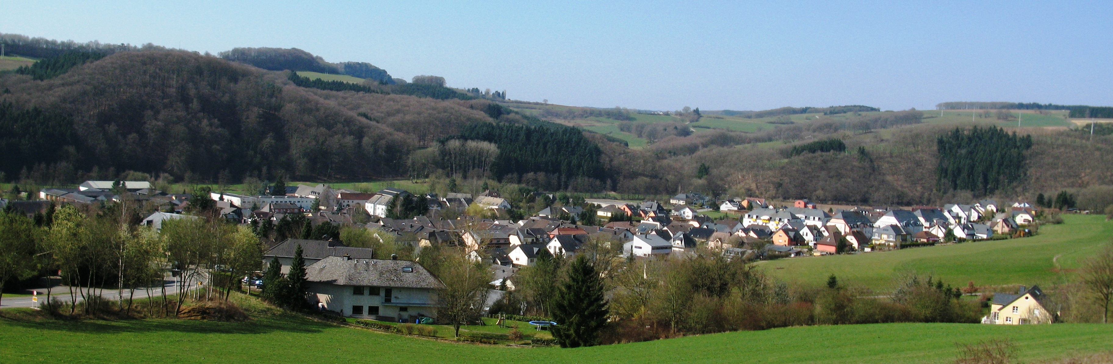 Northern part of Warken seen from the hill Tonn.